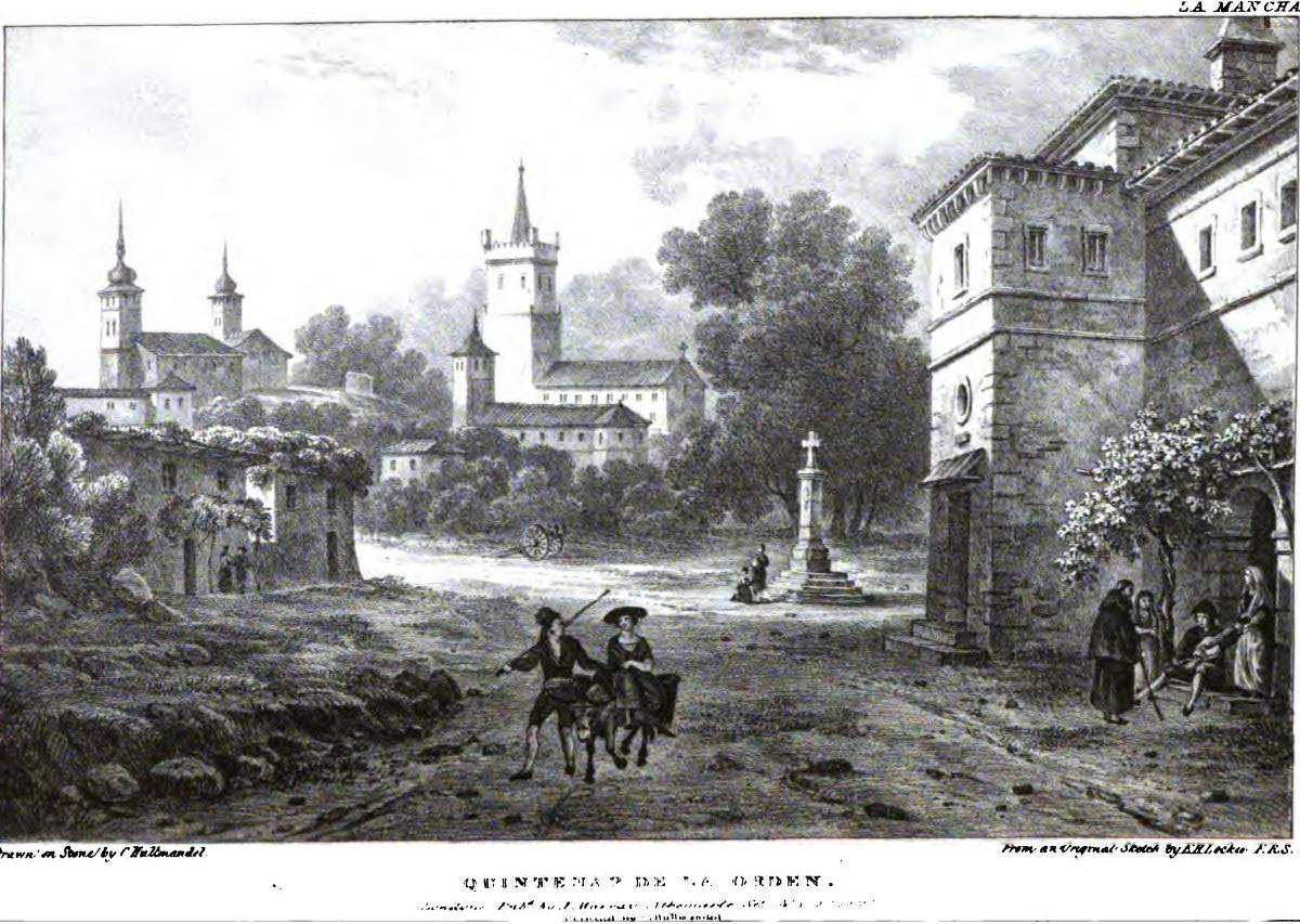 Quintanar de la Orden (work "Views in Spain")